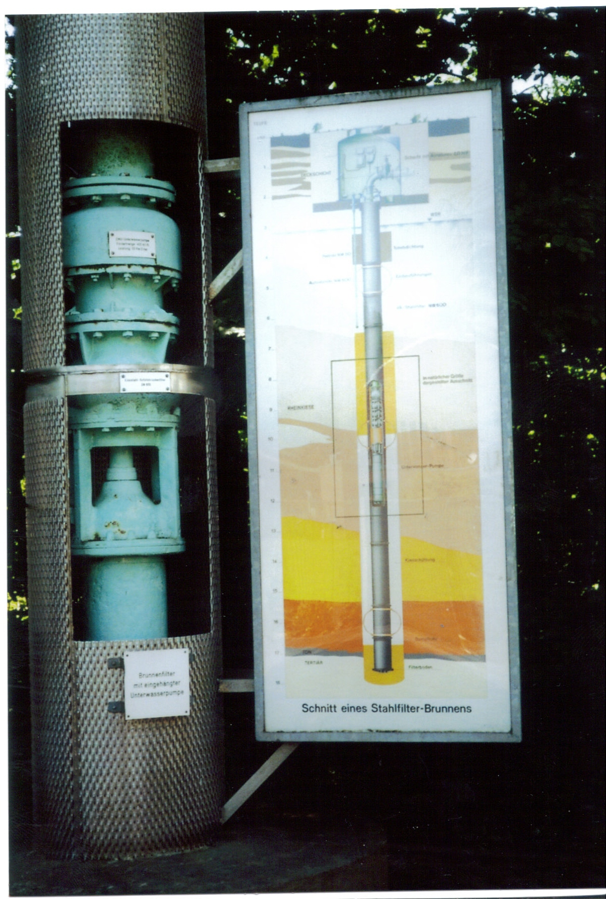 Waterworks Weiler (Germany), steel filter Fountain